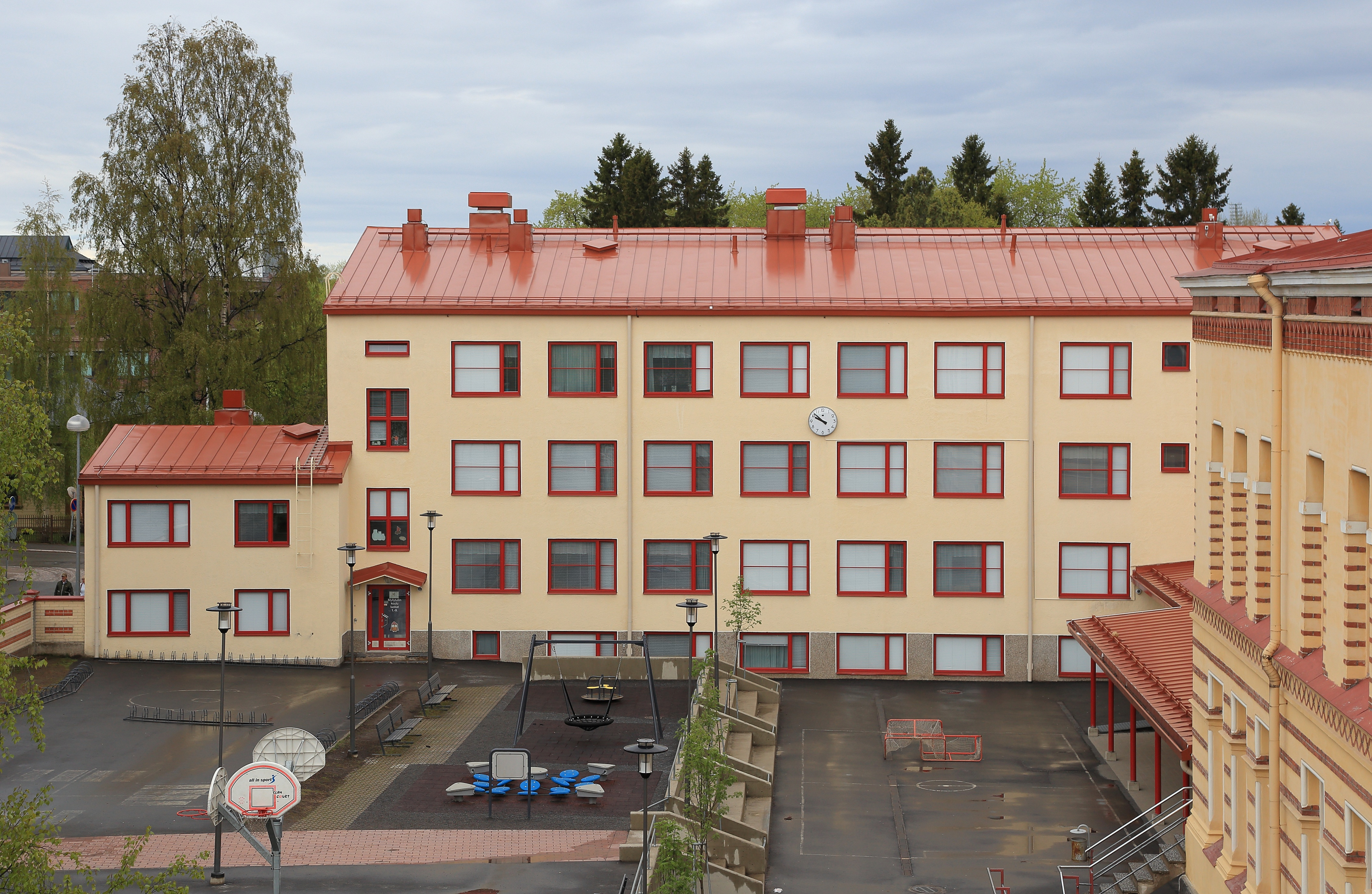 The annexe of the Myllytulli school has been built in 1960.